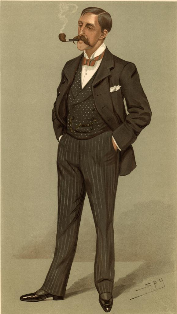 Caricature of Max Pemberton. Caption read “A Puritan’s Wife”.